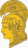 Branch insignia for United States Army Women's Army Corps.